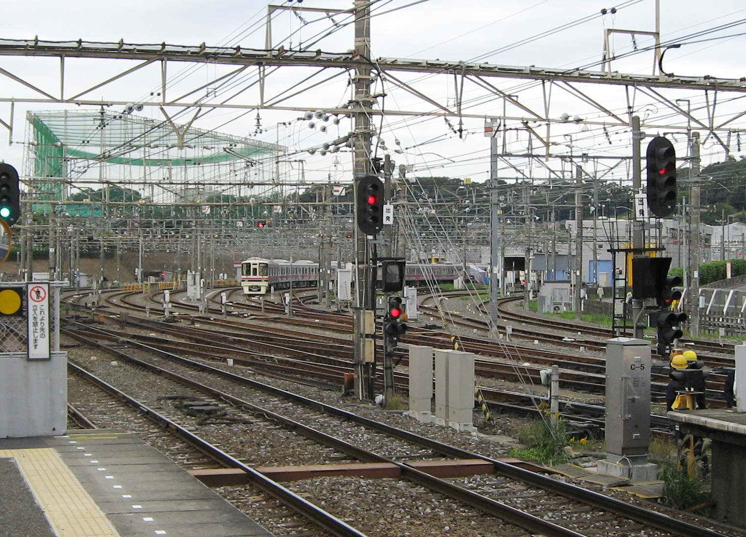 Wakabadai Inspection Depot seen from Wakabadai Station, Inagi, Tokyo, Japan.